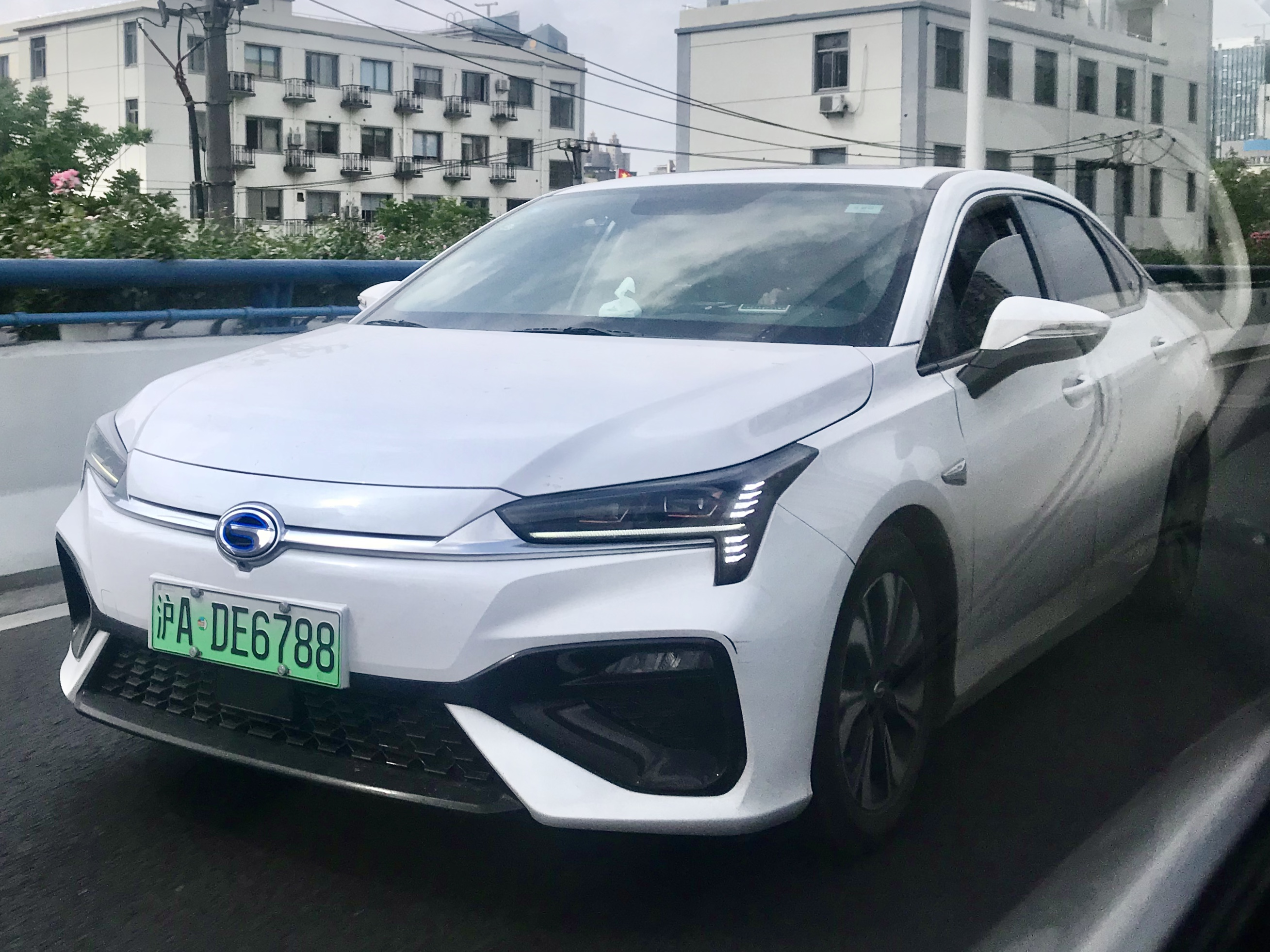 GAC Aion S